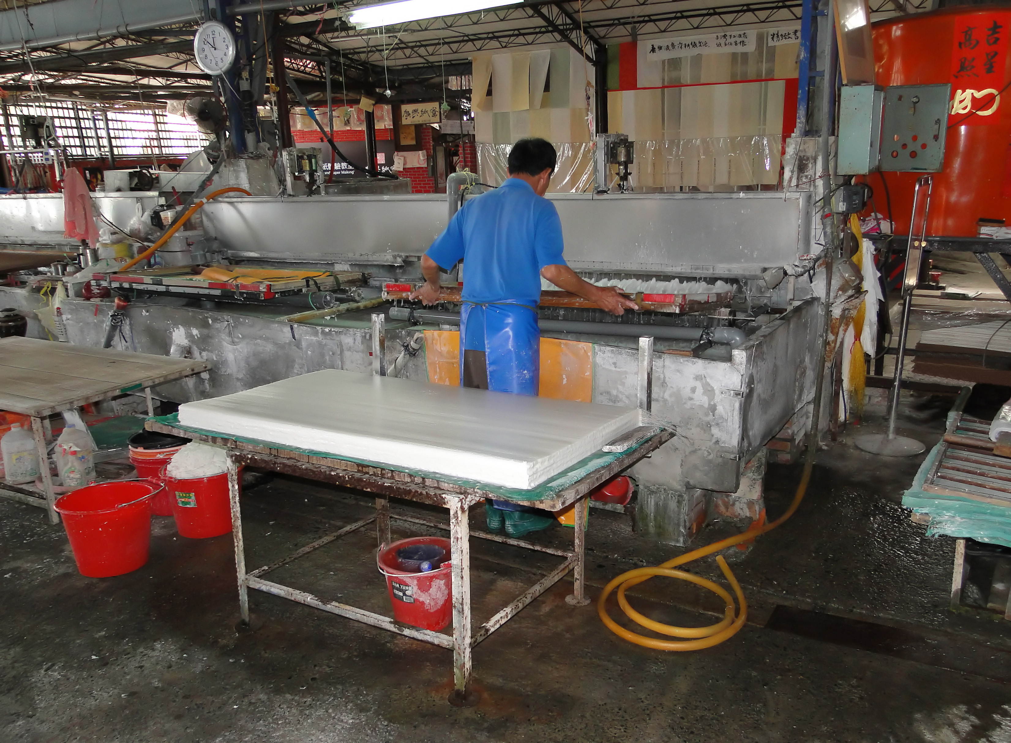 Xiang Long Paper Factory in Puli, Nantou County, Taiwan